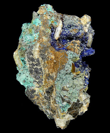 Cerussite, Rosasite, Azurite, Smithsonite, Mimetite, Beudantite, Baryte, Galena Locality: Sherman Mine (Sherman tunnel; Leadville Corporation Mine; Day Mines; Hilltop Mine), Upper Iowa Gulch, Leadville District, Lake County, Colorado, USA (Locality at ) Size: 15.1 x 10.6 x 9.8 cm. Without a doubt, this is one of the most impressive association specimens I have seen not only from Leadville, but virtually any Colorado locality. Leadville is well known for its Silver deposits, but the secondary ore minerals from the Sherman mine are treasured by Colorado collectors. This piece features more associated species on the same specimen than I have seen from the Sherman mine. It features tiny white "snowflakes" of Cerussite lightly dusted with Rosasite on Azurite along with crystals of Smithsonite and Mimetite, plus the very rarely seen arsenate, Beudantite on a matrix of golden Baryte crystals, Galena and Quartz. I spent nearly 30 minutes with this piece under the microscope. It's an incredibly fun specimen to view under high magnification, and an amazing association specimen from one of the most storied mining districts in Colorado. Colorful secondary ore specimens are not the first thing that comes to mind when one thinks of Colorado, and this piece is about as rich as it gets when it comes to species. This specimen was collected in 1980, and stands as one of the most unique pieces I have ever seen from Leadville. From C-22 Area. Ex. Richard Kosnar Collection.